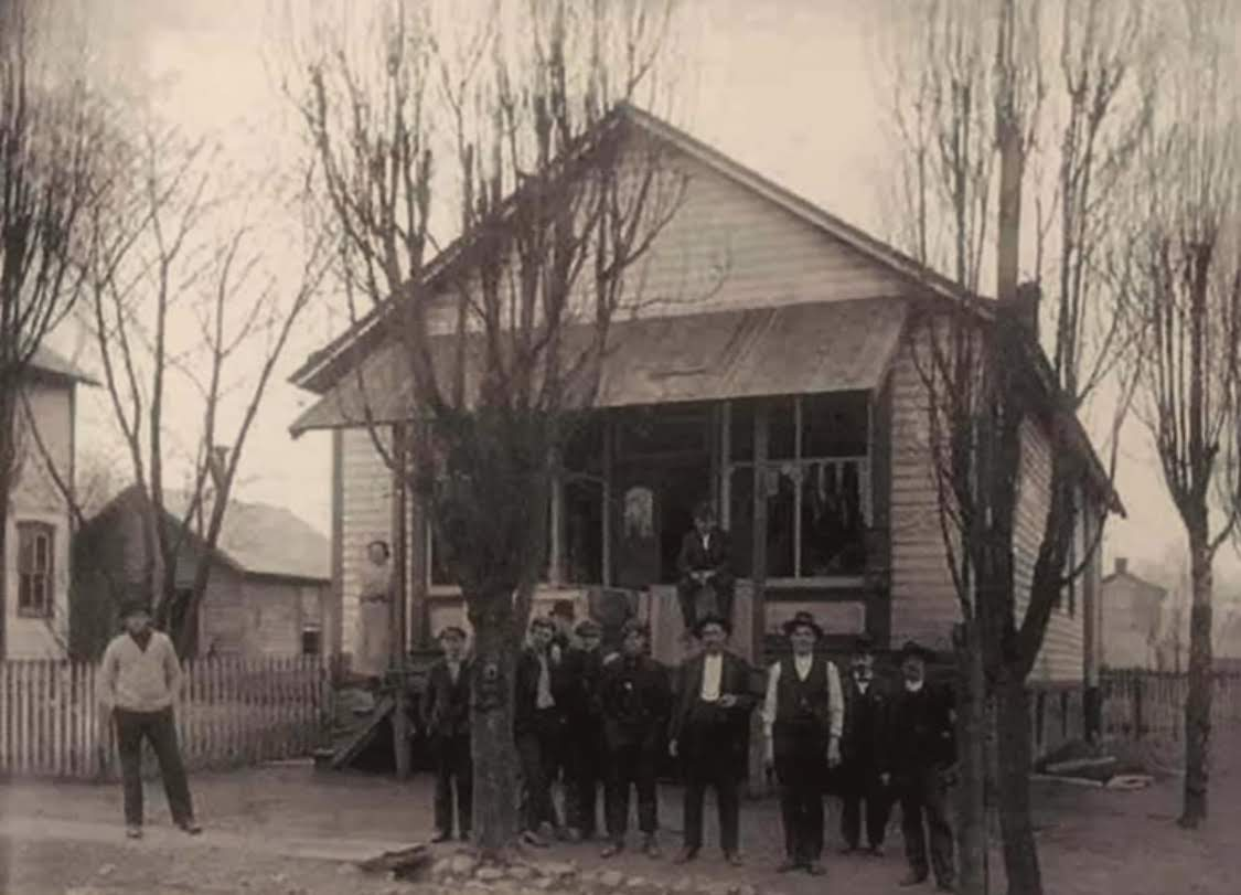 This is the first store opened in the village of Collinsburg Pennsylvania, Circa 1900.